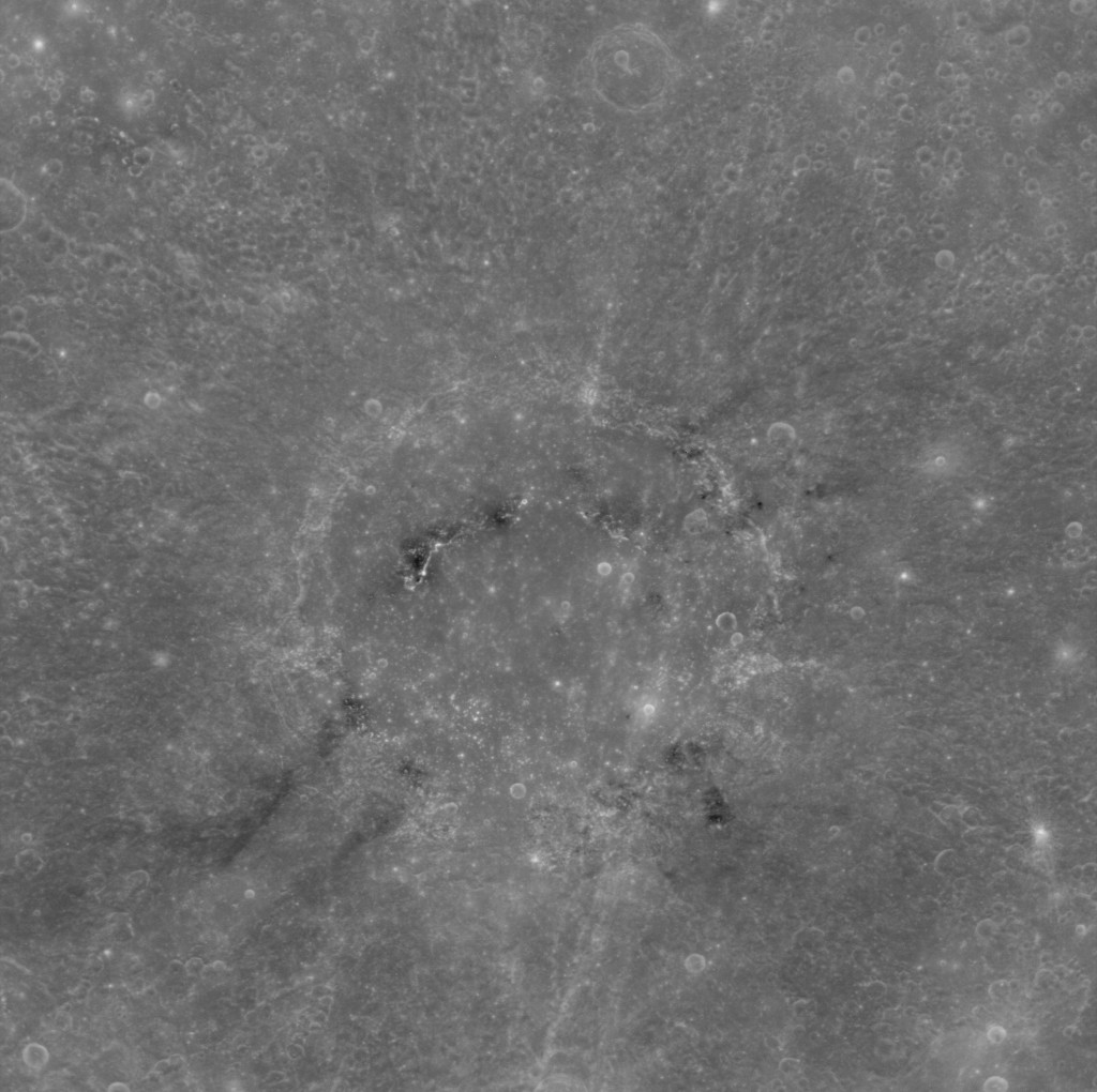 Mozart crater on Mercury. MESSENGER Wide Angle Camera image, rotated so north is at top. Center Emission Angle: 19.006137331483 Center Incidence Angle: 9.0614776324614 Center Latitude: 8.5686445303204 Center Longitude: 170.06624145172 Center Phase Angle: 28.051189356644